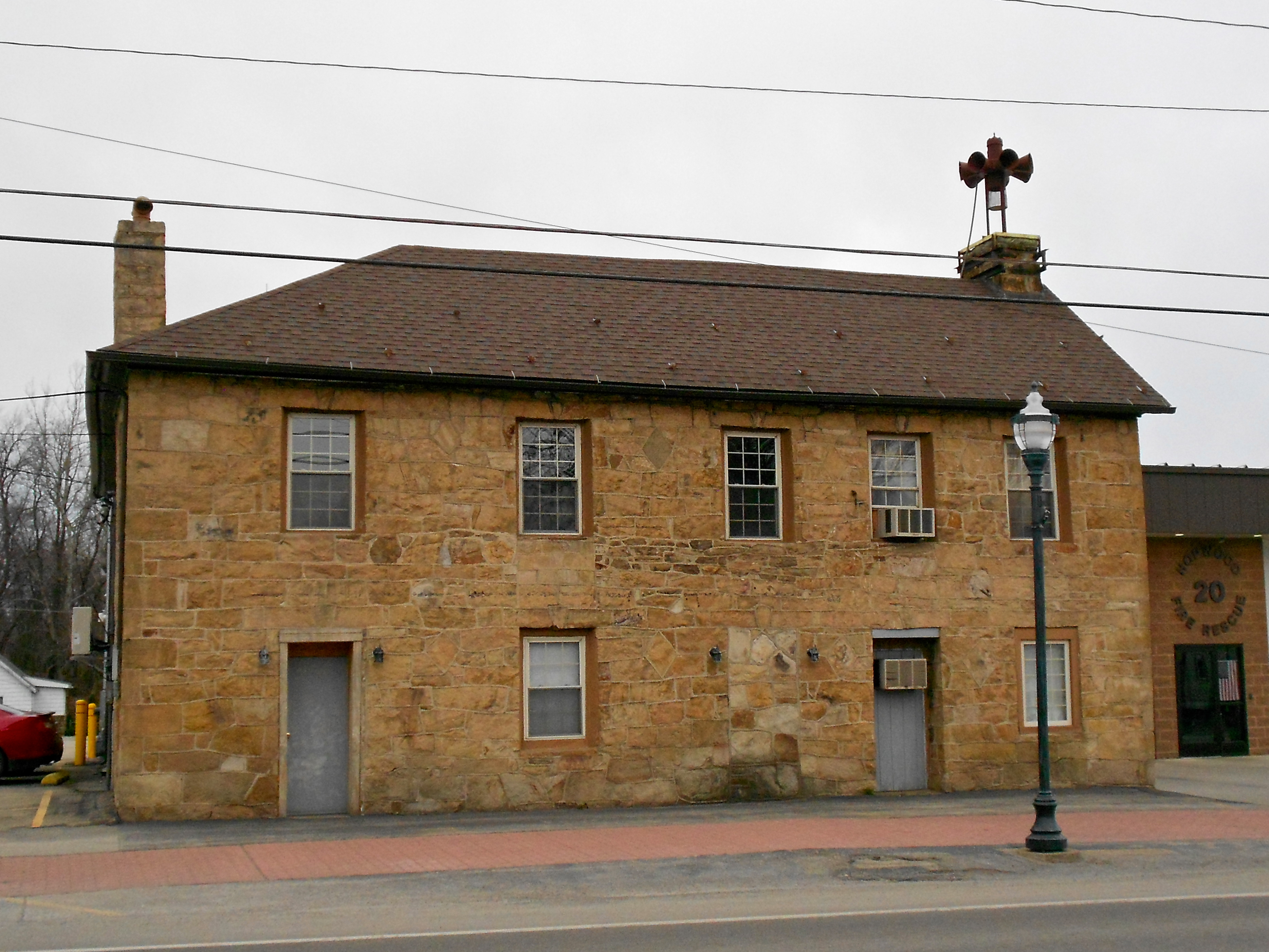 Morris-Hair Tavern on the NRHP since November 27, 1995. On U.S. Route 40 (Main Street or the National Road) in Hopwood, South Union Township, Fayette County, Pennsylvania near Uniontown. Now part of a volunteer fire department (see sirens on top of the chimney and attached modern firehouse on the right. Paul Street on the left.